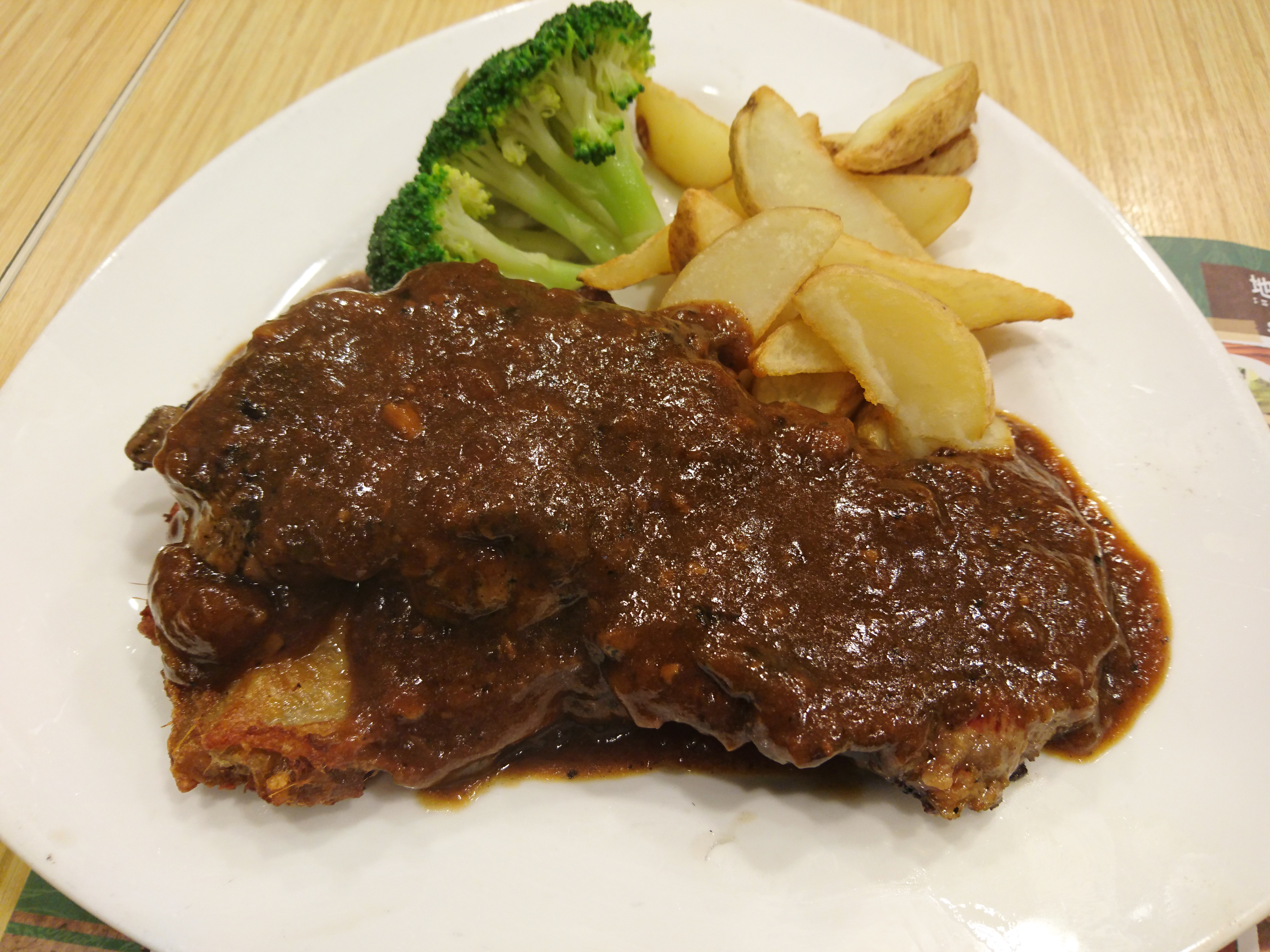 Beef Steak in Black Pepper Sauce